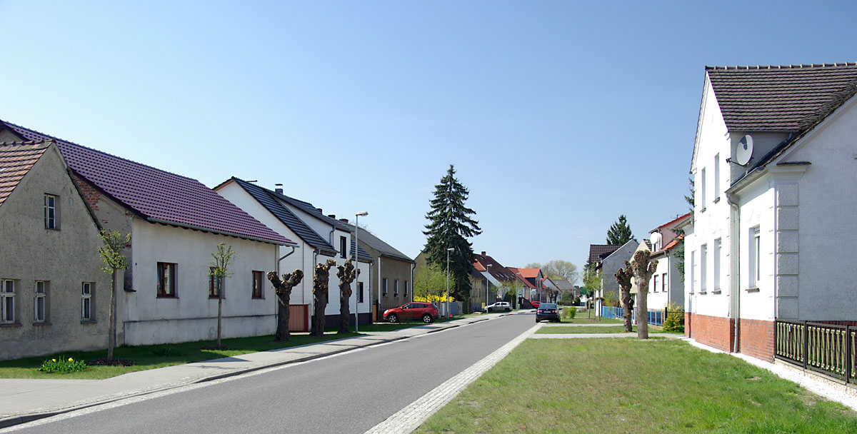 Village of Schmogrow, Brandenburg, Germany